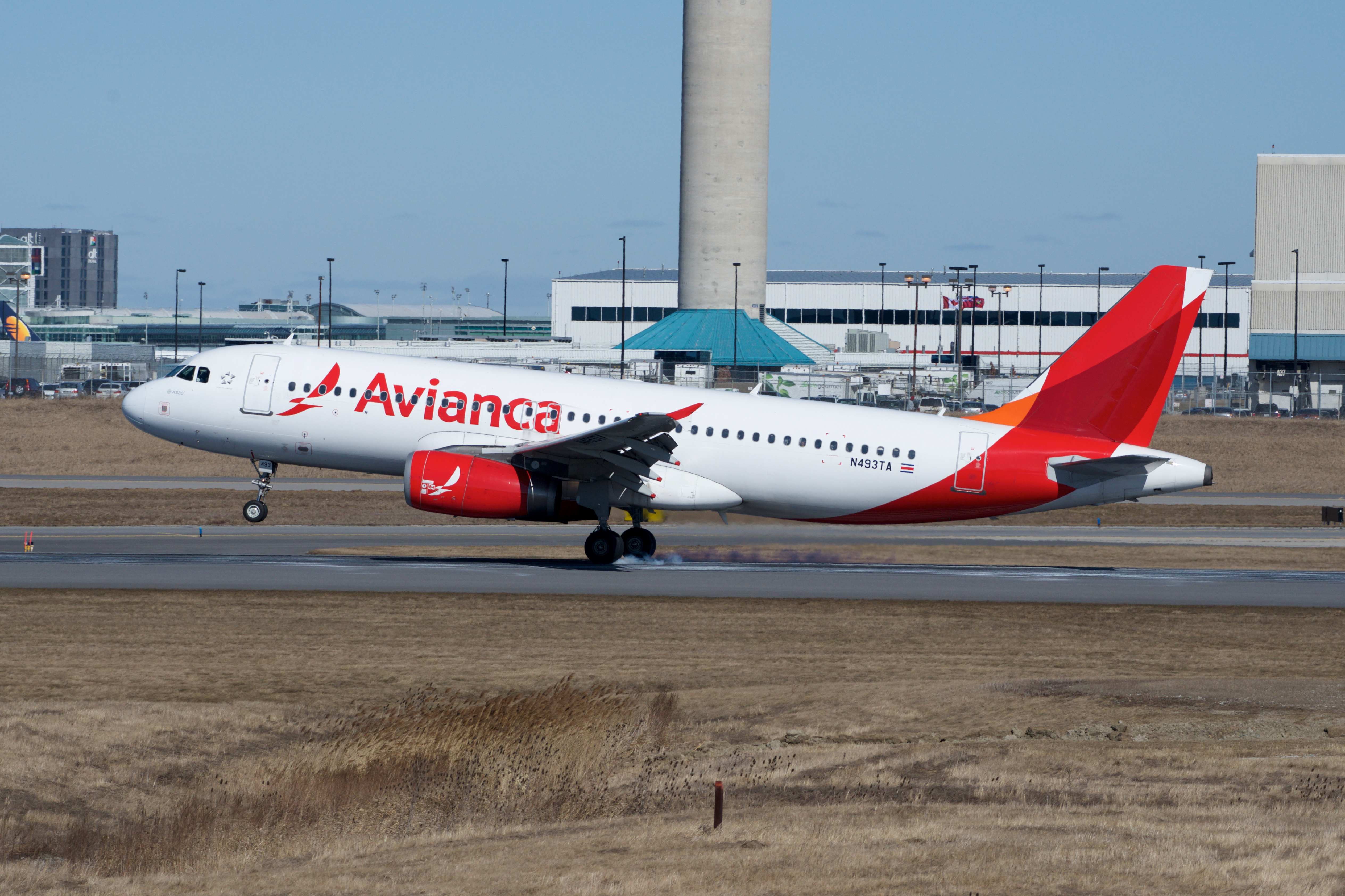 Avianca Central America Airbus arriving YYZ